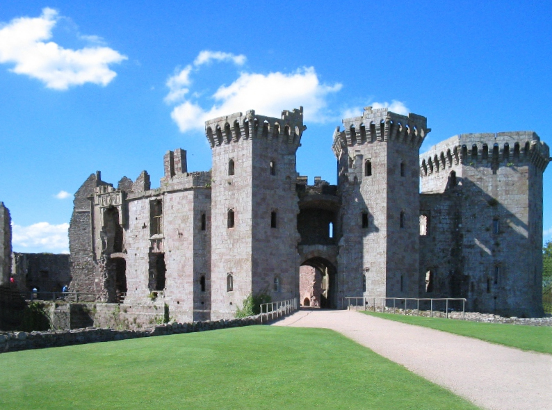 Photo of Raglan Castle taken by and copyright Gwen Hitchcock, who has agreed for its release into the GFDL. Uploaded by Sam Jervis 21:16, 9 Sep 2004 (UTC)